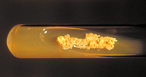 colony of Nocardia asteroides bacterias